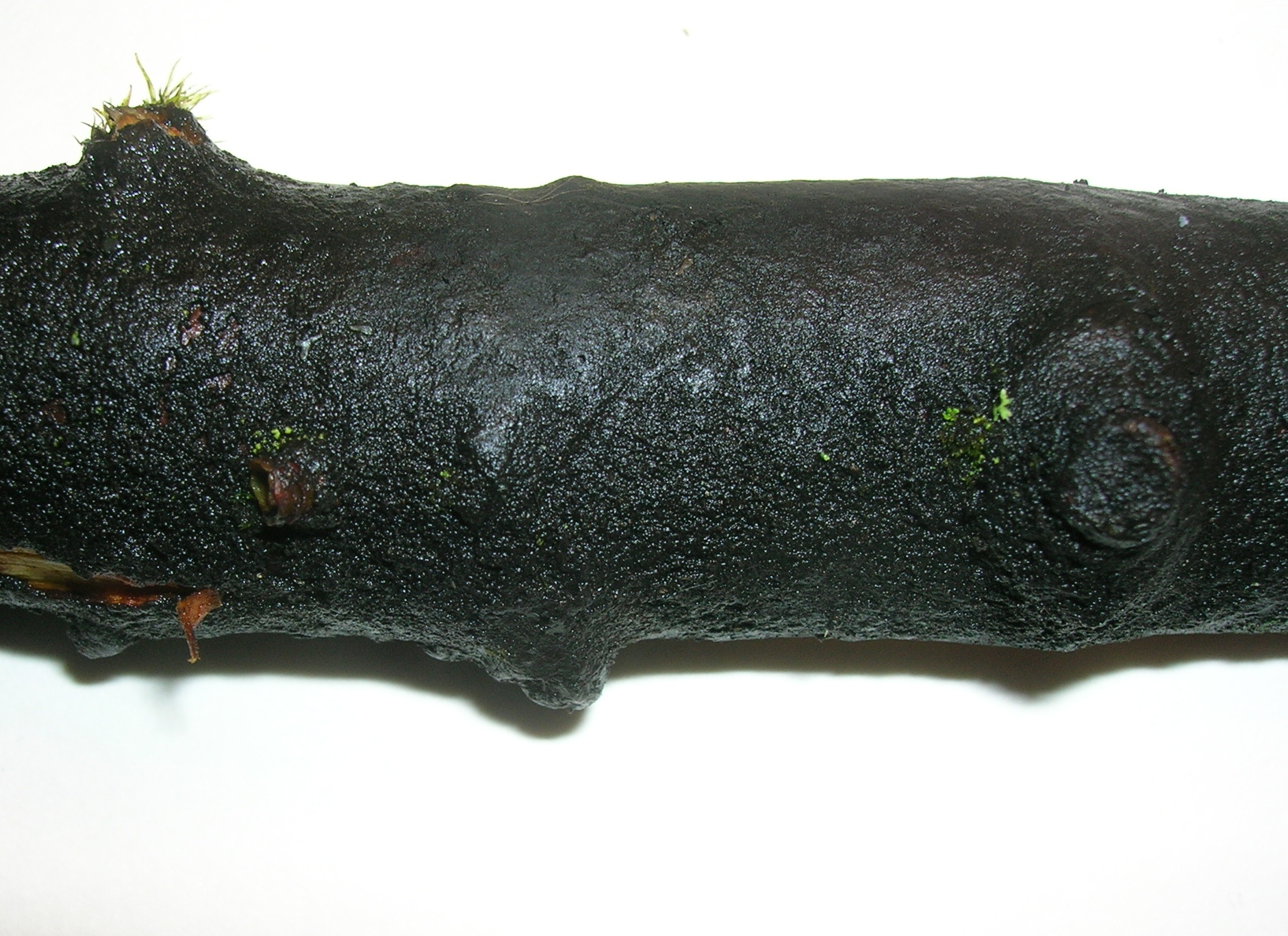 Baudoinia compniacensis on Acer pseudoplatanus from Willowyard, Beith, North Ayrshire, Scotland.